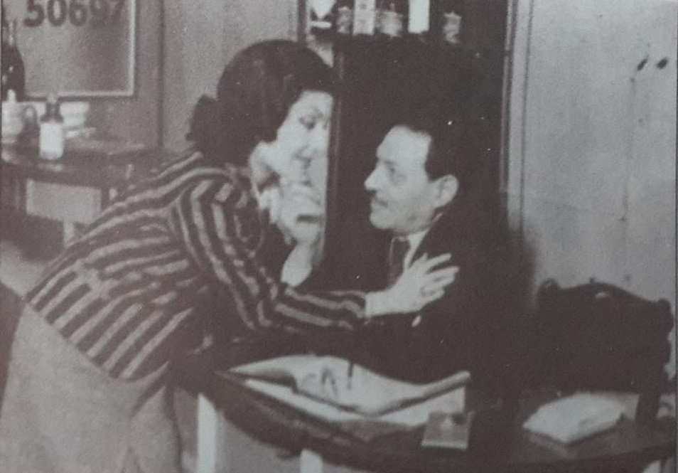 Naguib el-Rihani in a scene from a play entitled "Hassan, Markus, and Cohen", first played in 1943.